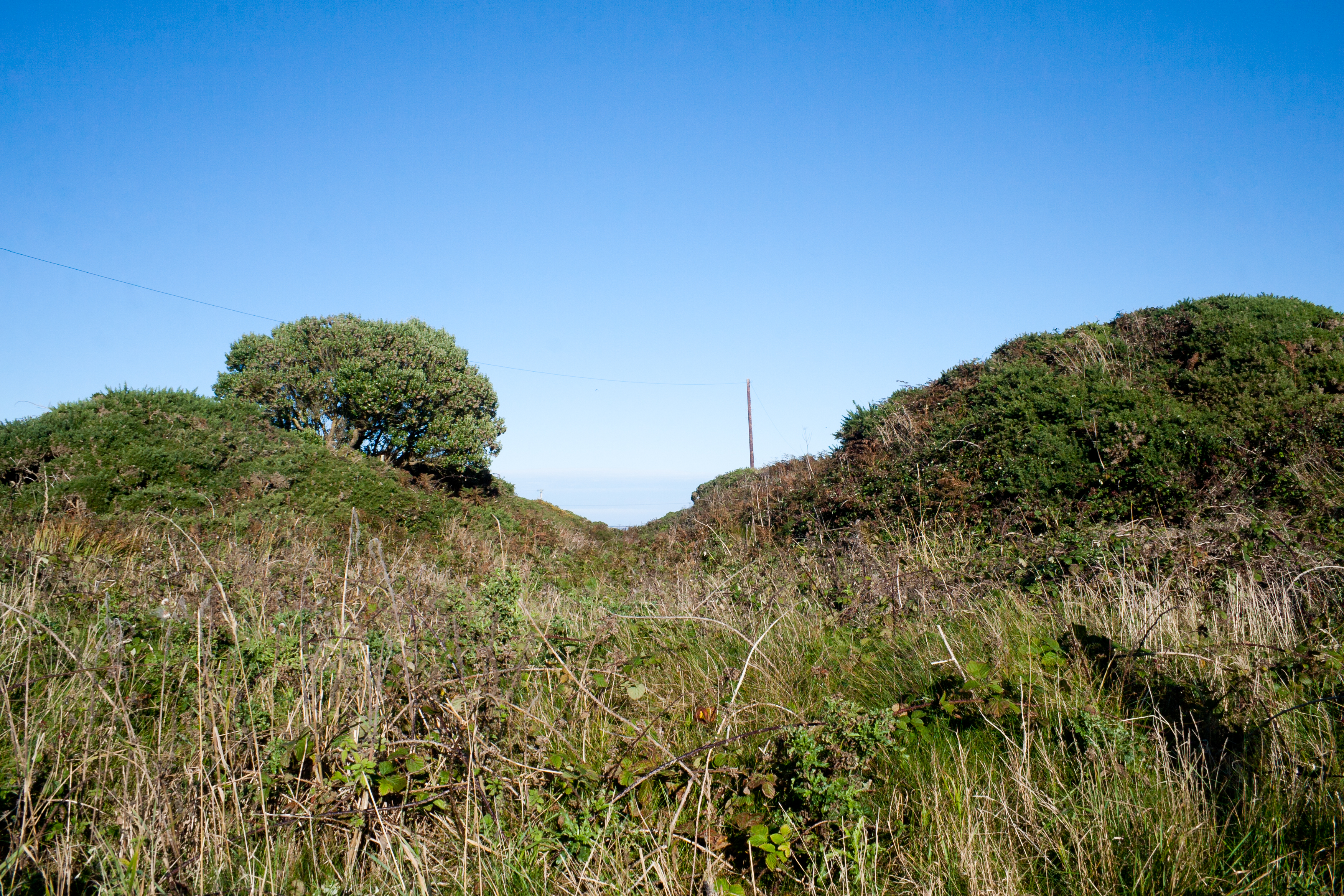 Ringwork fortification, probably created during the Anglo Norman invasion at Baginbun in 1170 by Raymond FitzGerald. This fortification, consisting of two earthen banks, runs in east-west direction across the headland over 230 meters. This photo has been taken from the western side of the fortification, looking east between the two earthen banks. See entry 962 in Michael J. Moore: Archaeological Inventory of County Wexford, ISBN 0-7076-2326-X.